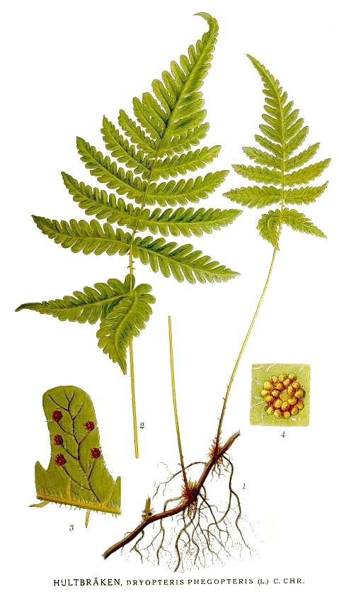 Phegopteris connectilis (Michx.) Watt Original Description Hultbräken, Dryopteris phegopteris (L.) C. Chr.